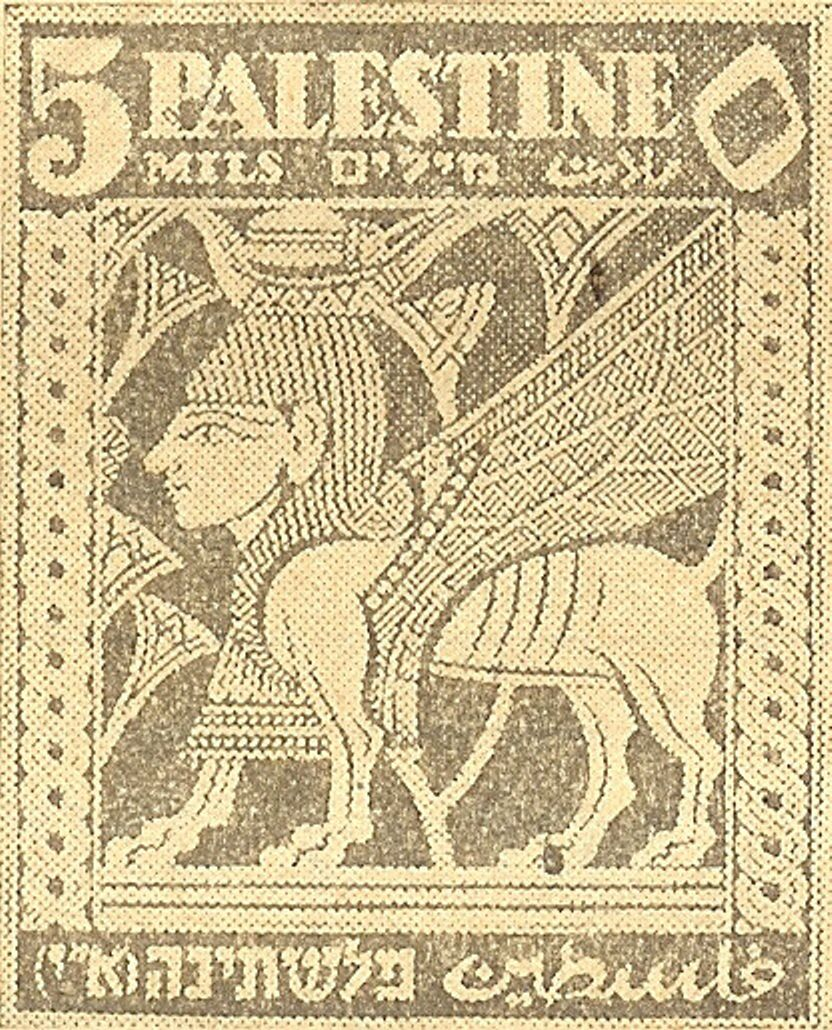 EI - Mandate - unaccepted 2